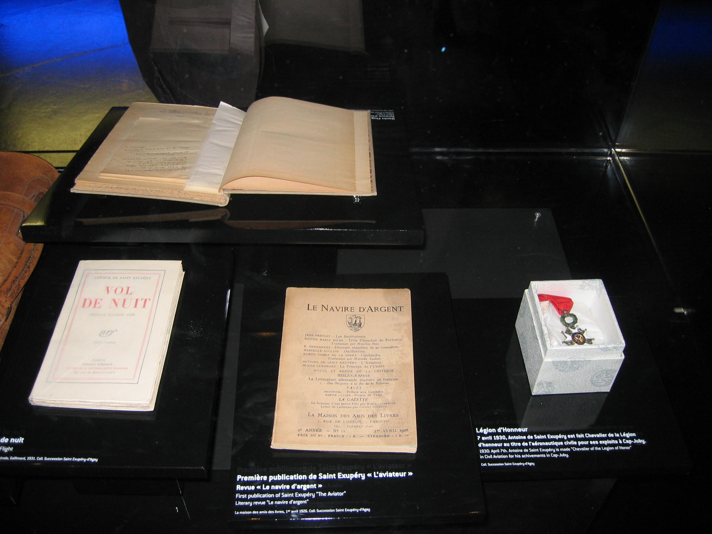 Antoine de Saint-Exupéry exhibit at the French Air and Space Museum in Le Bourget, Paris. Shown are artifact's from Saint Exupéry's life, including his French Legion of Honour medal (from 1930, at right), and printings of his works, including Night Flight (at left), and The Aviator (centre).